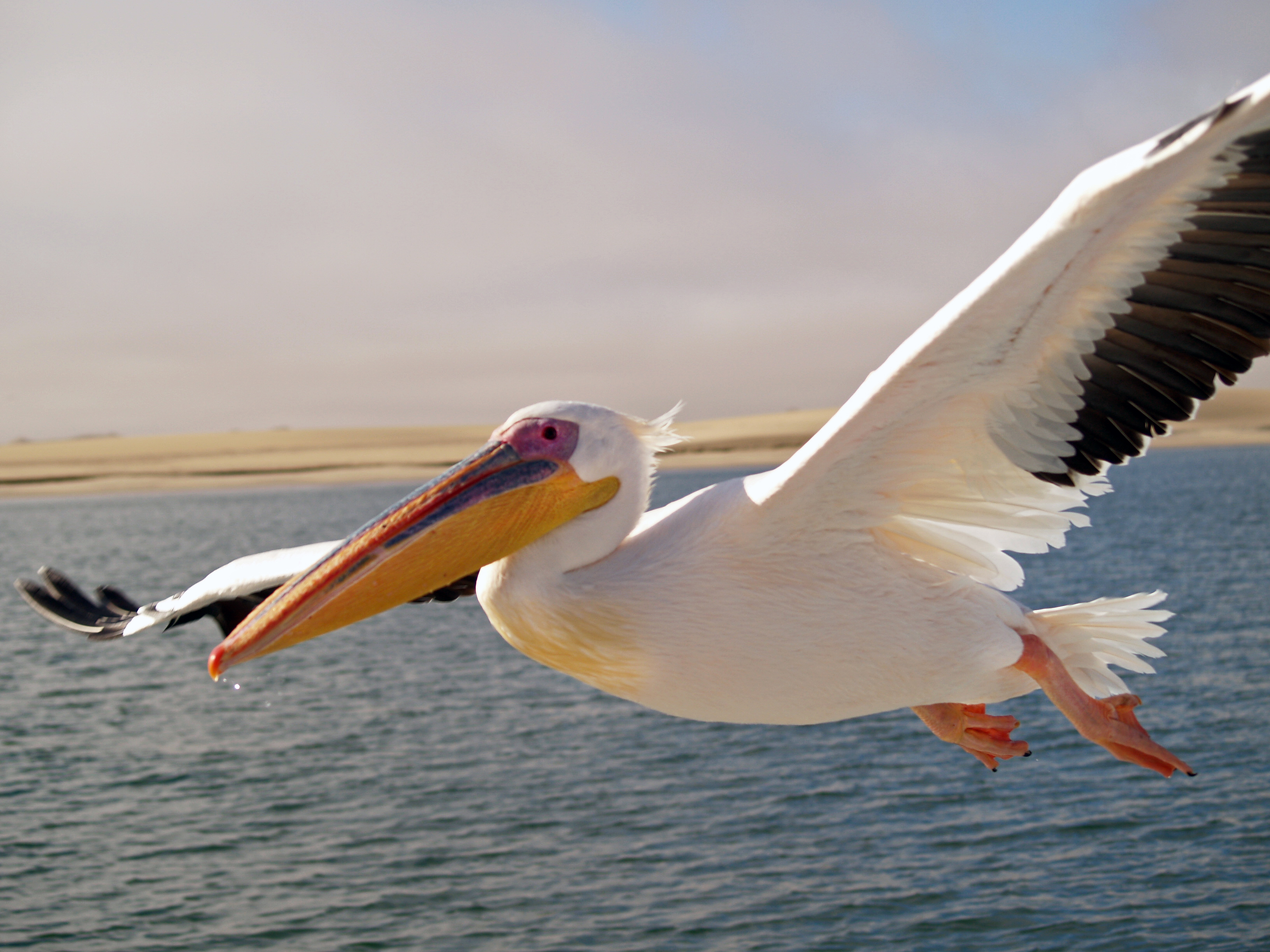 White Pelican Pelecanus onocrotalus at Walvis Bay, Namibia